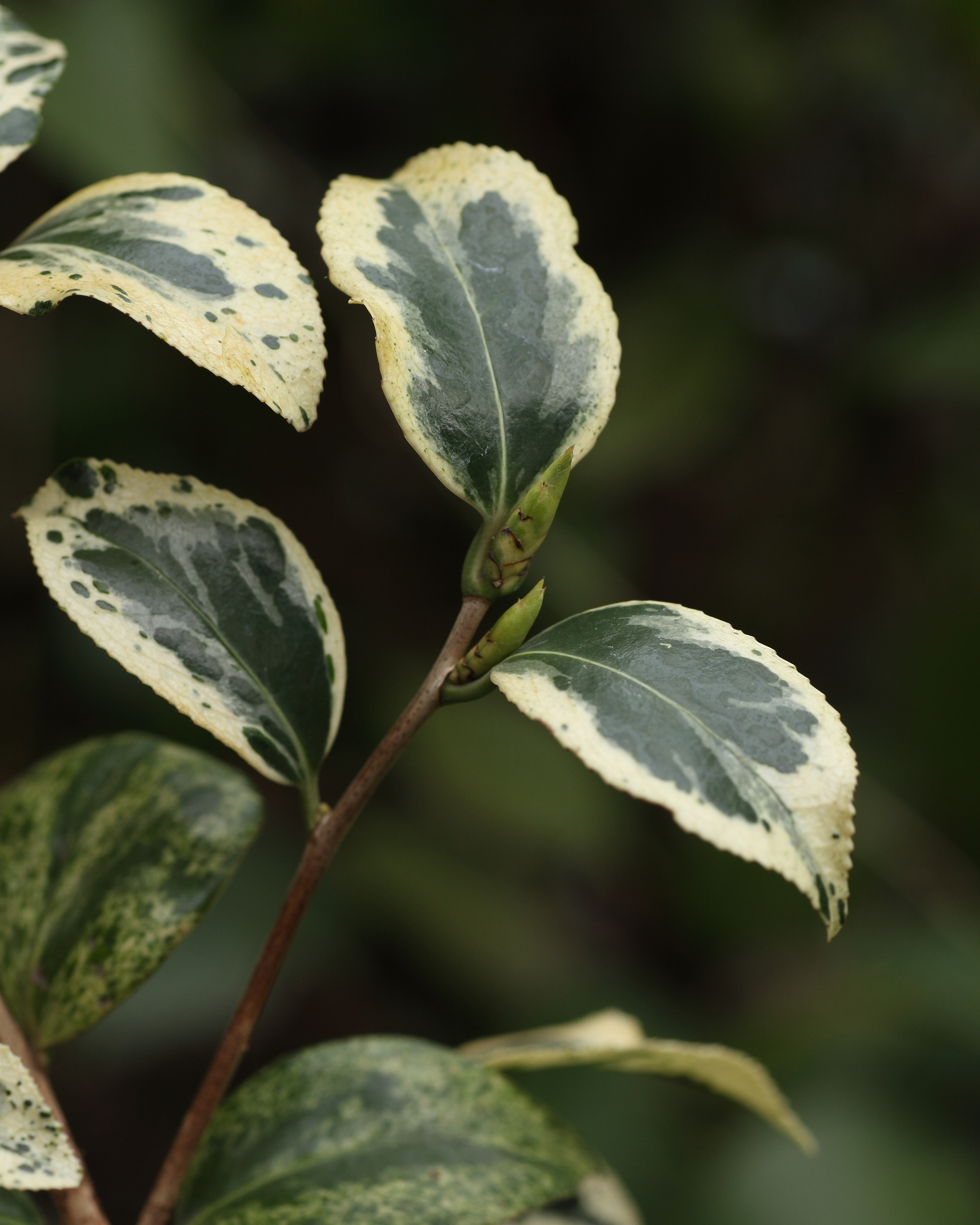 Camellia japonica Koshi-no-fubuki